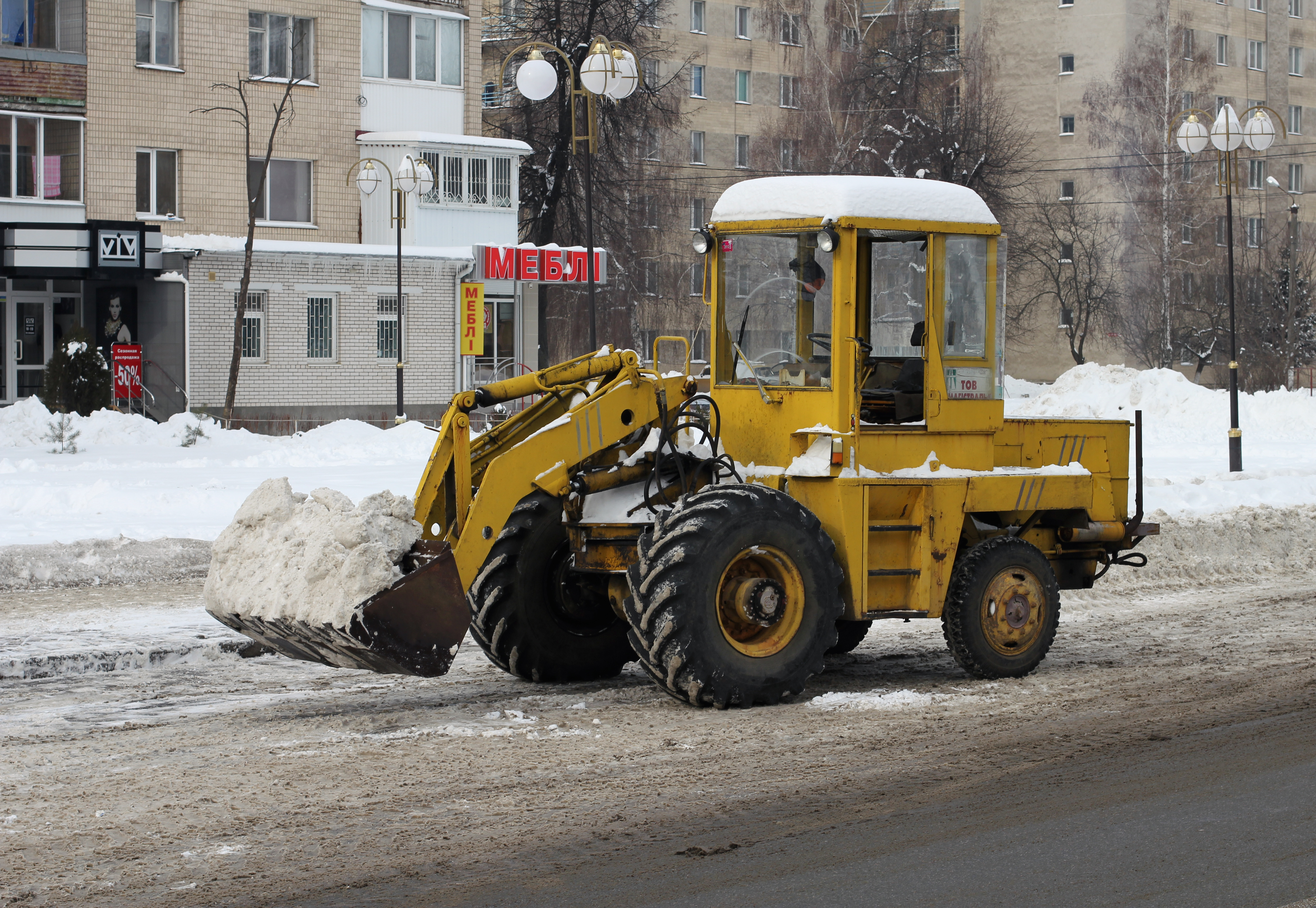 Customized snow removal vehicle in Vinnitsa, Ukraine.